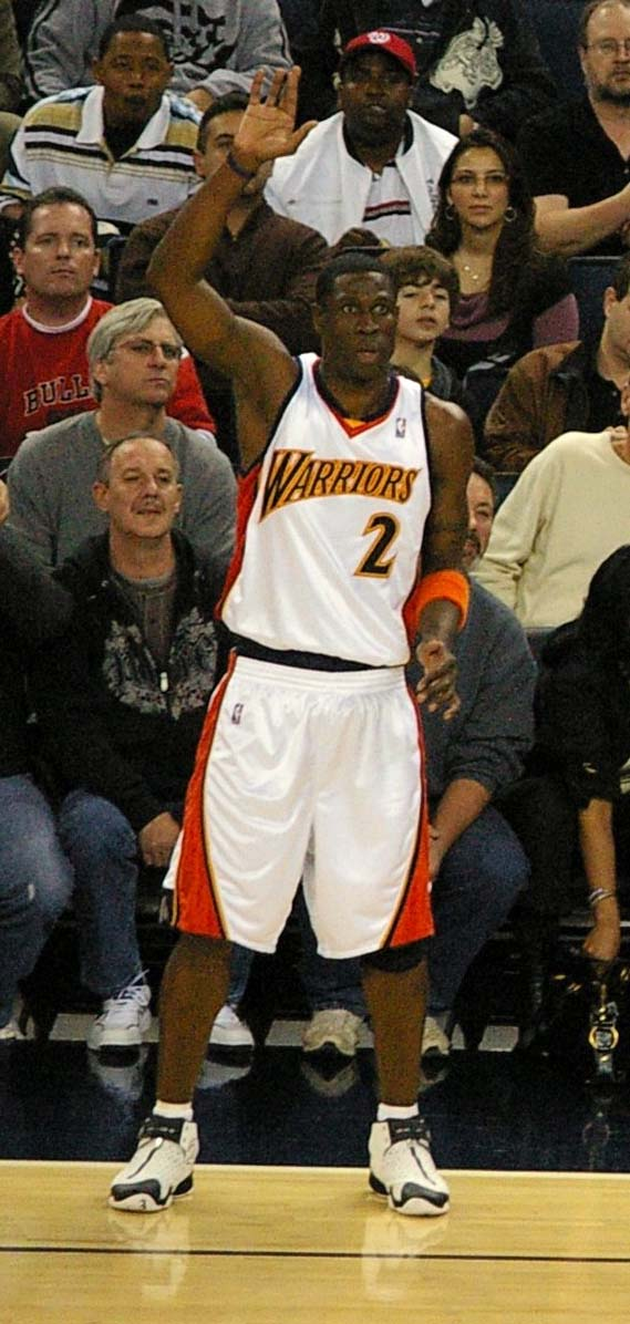 This file has been extracted from another file: Monta Ellis dunking.jpg